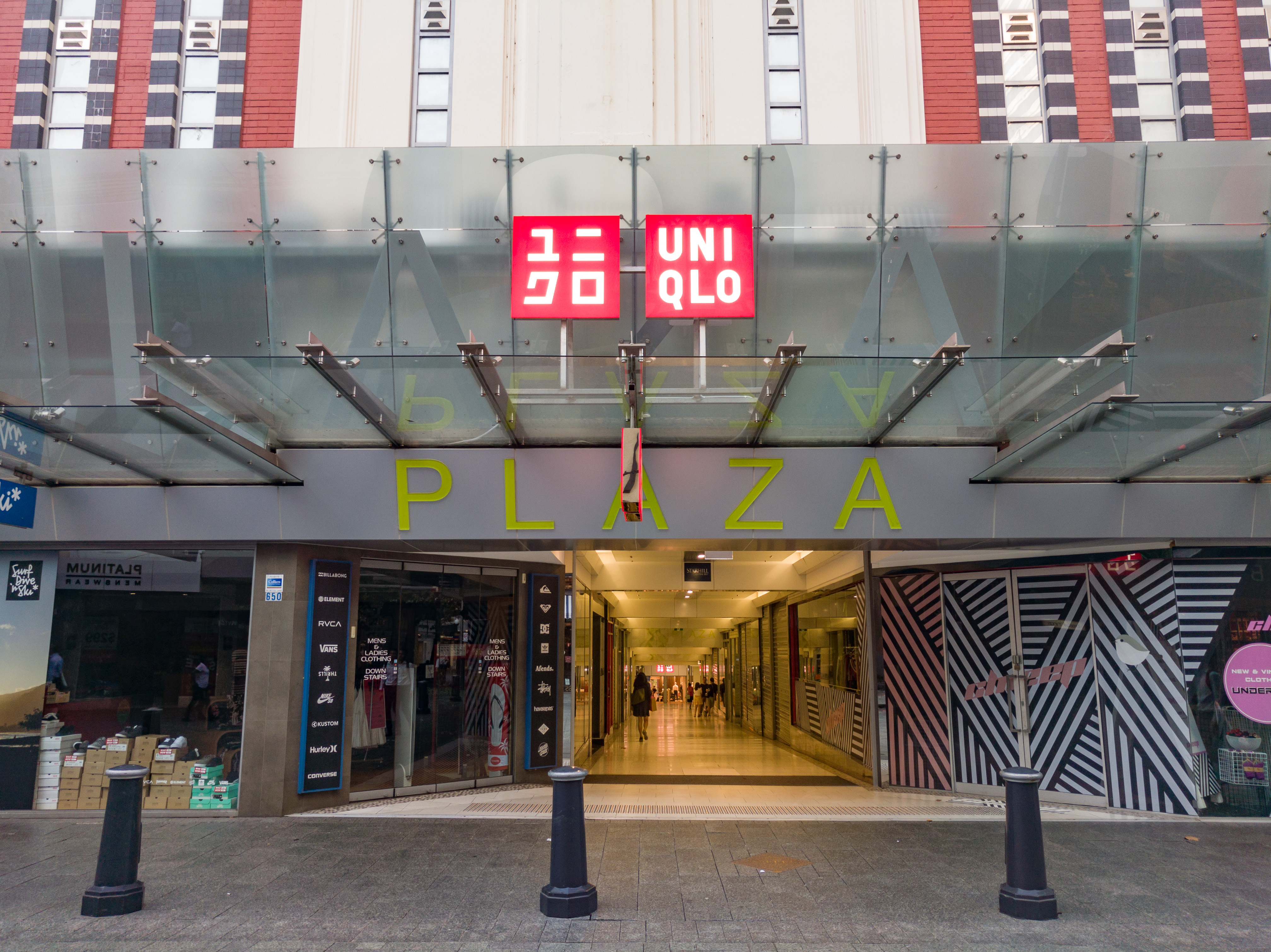 Plaza Theatre and Plaza Arcade from the Hay Street Mall